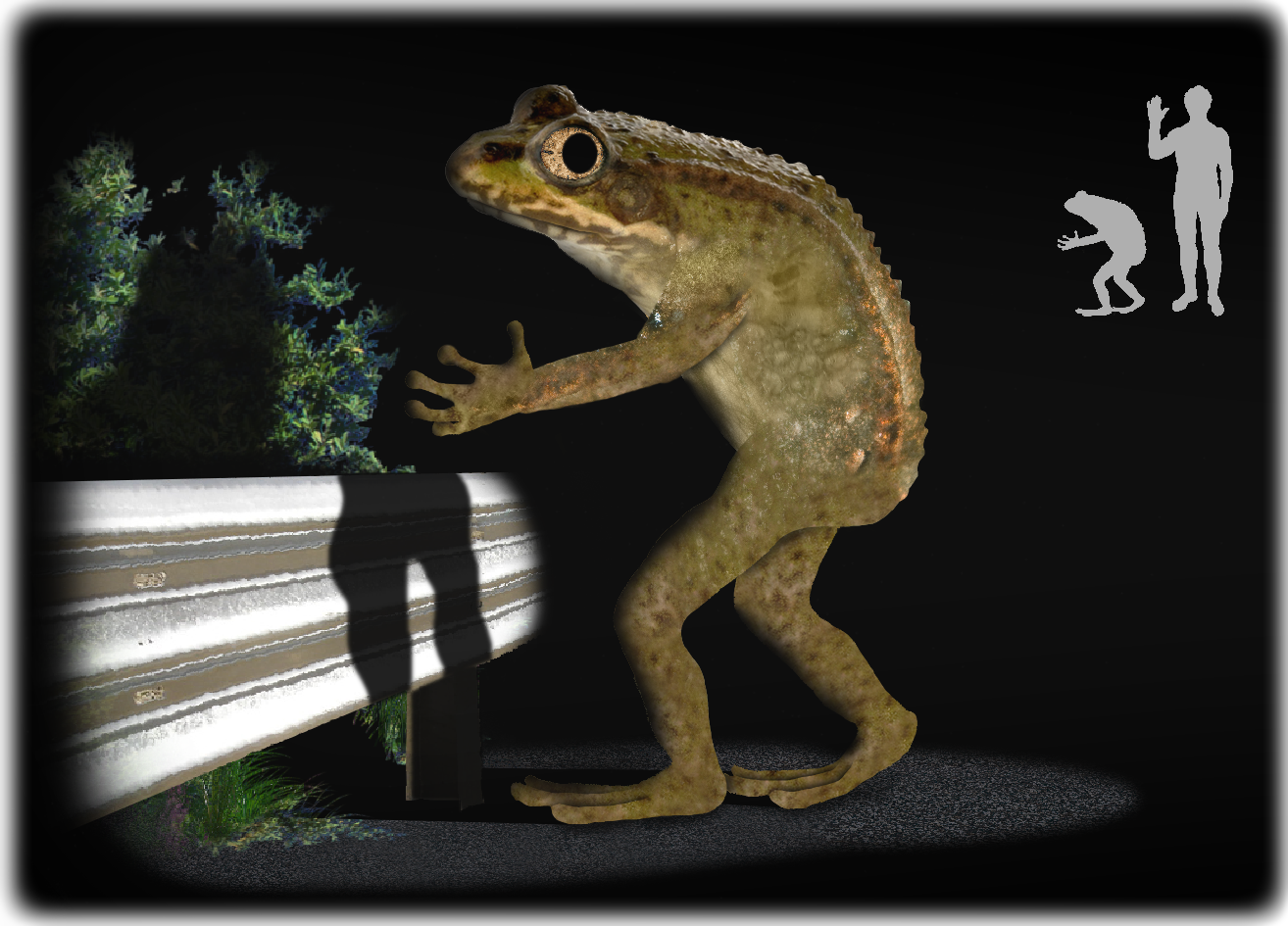 Artist's impression of a Loveland frog at the side of the road